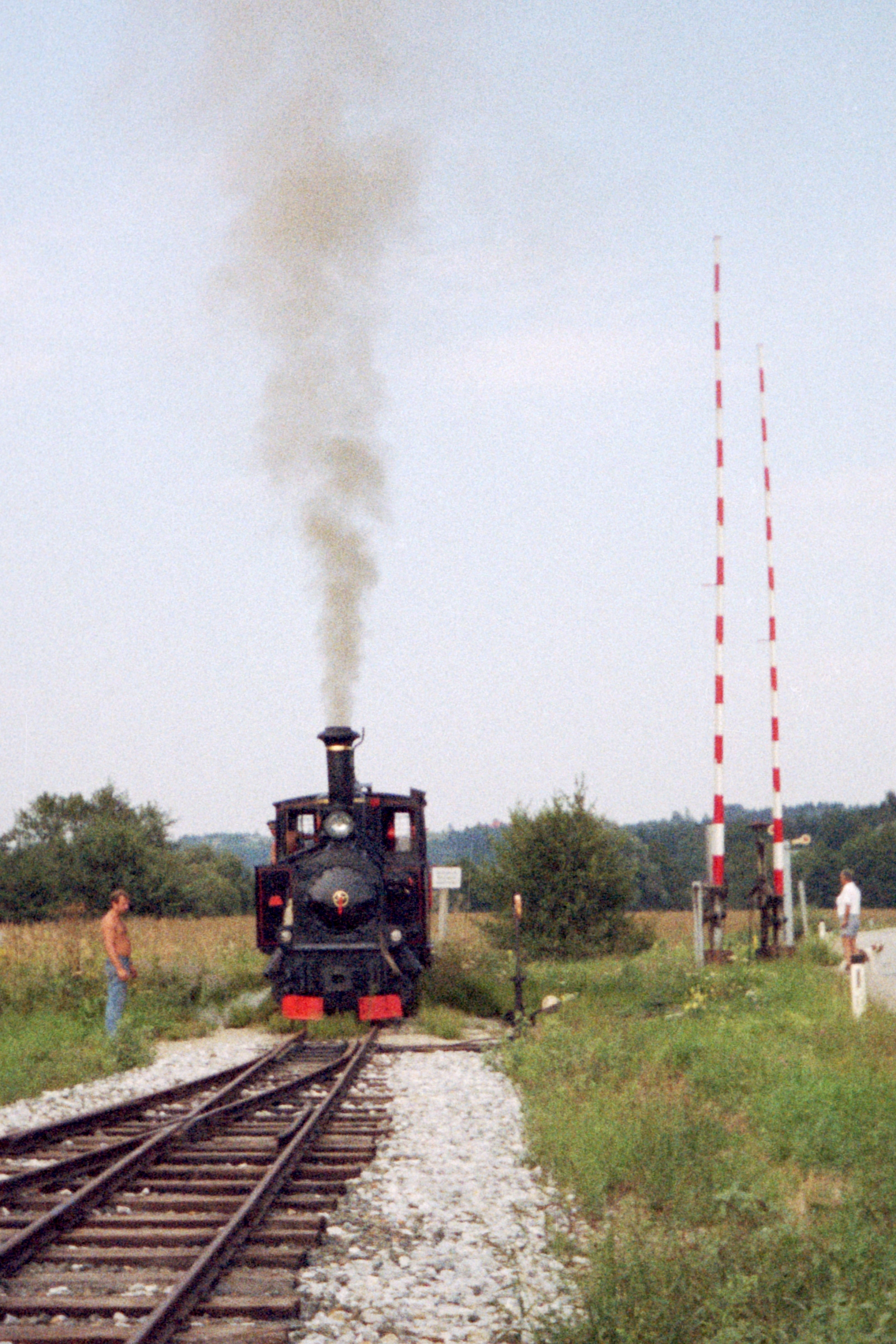 StLB S11 shunting around train at temporary Wohlsdorf terminus.